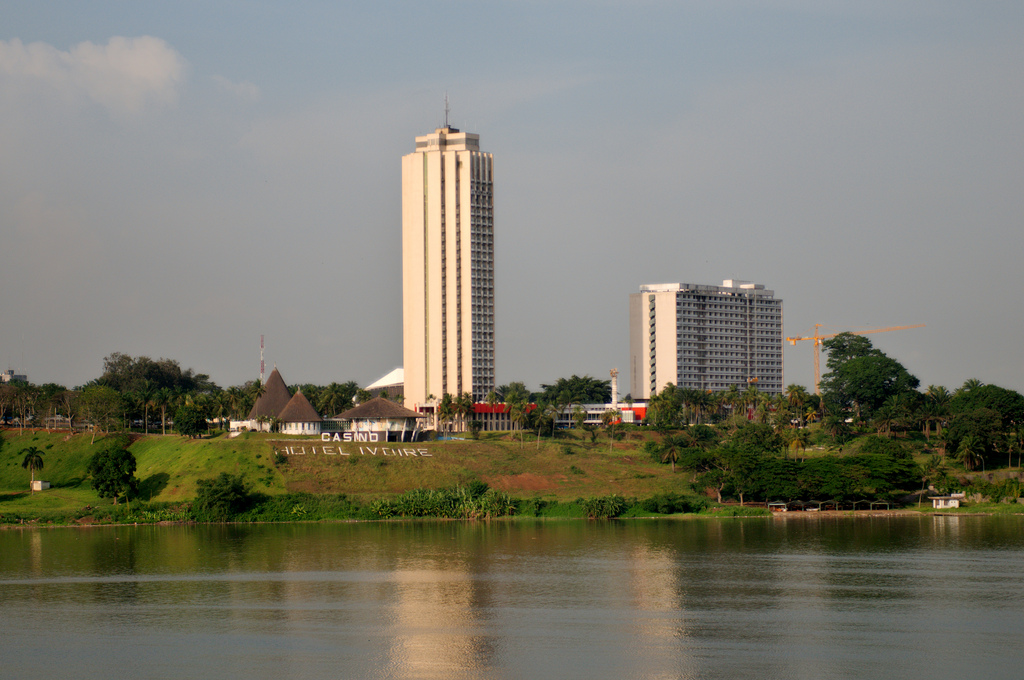 Hotel Ivoire in the city of Abidjan, Cote d'Ivoire